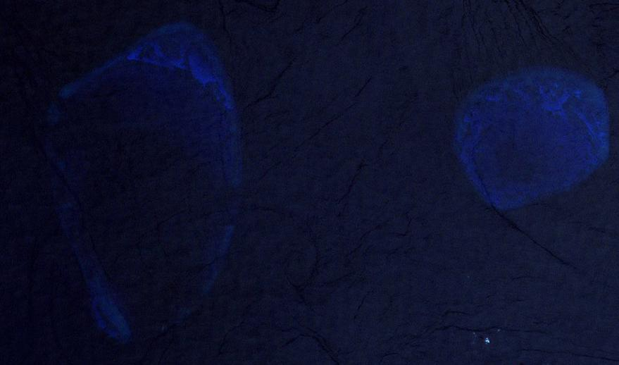 Sattelite image of Templer Bank